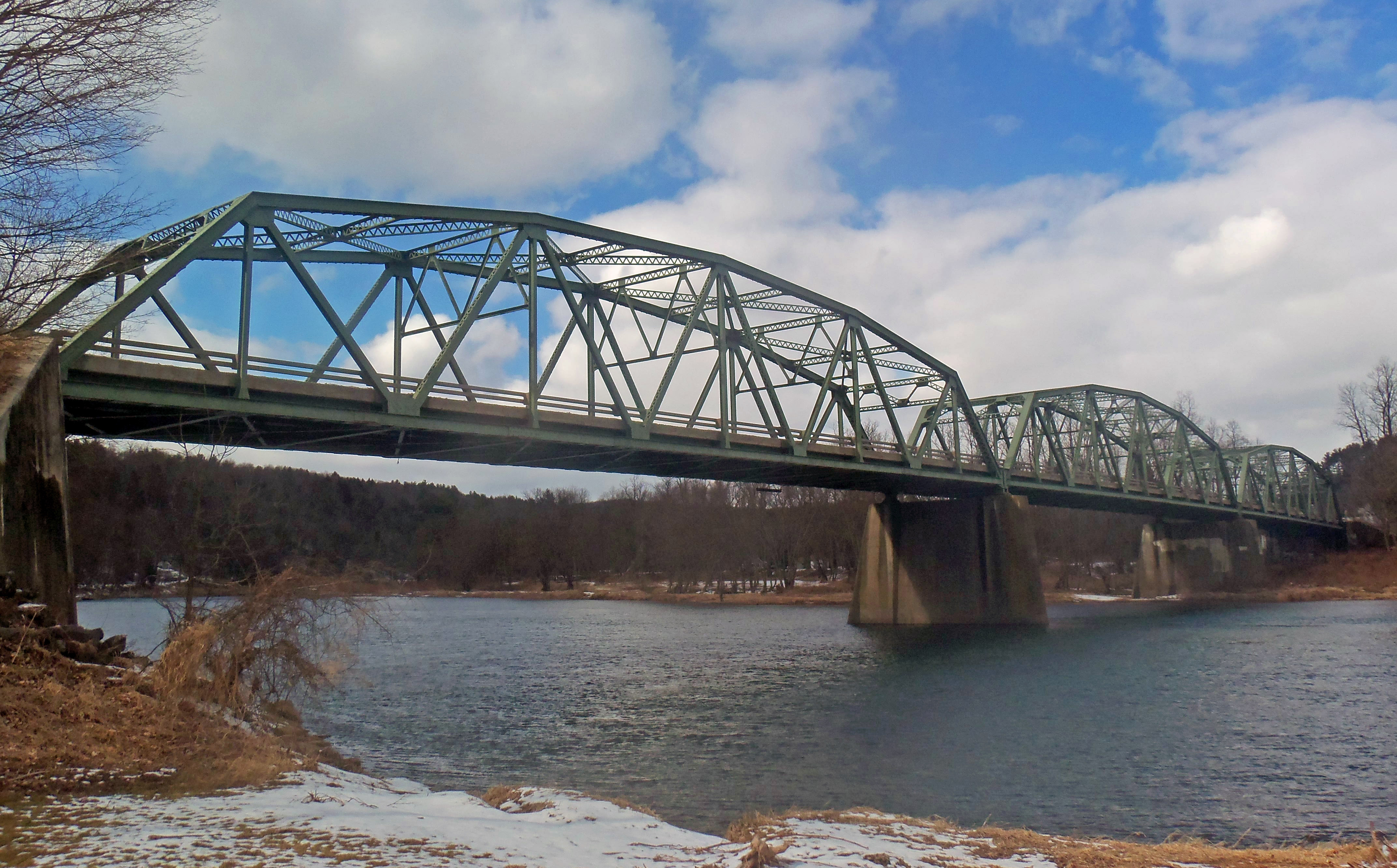 Cochecton–Damascus Bridge over the Delaware River, seen from the Pennsylvania side, looking into New York.